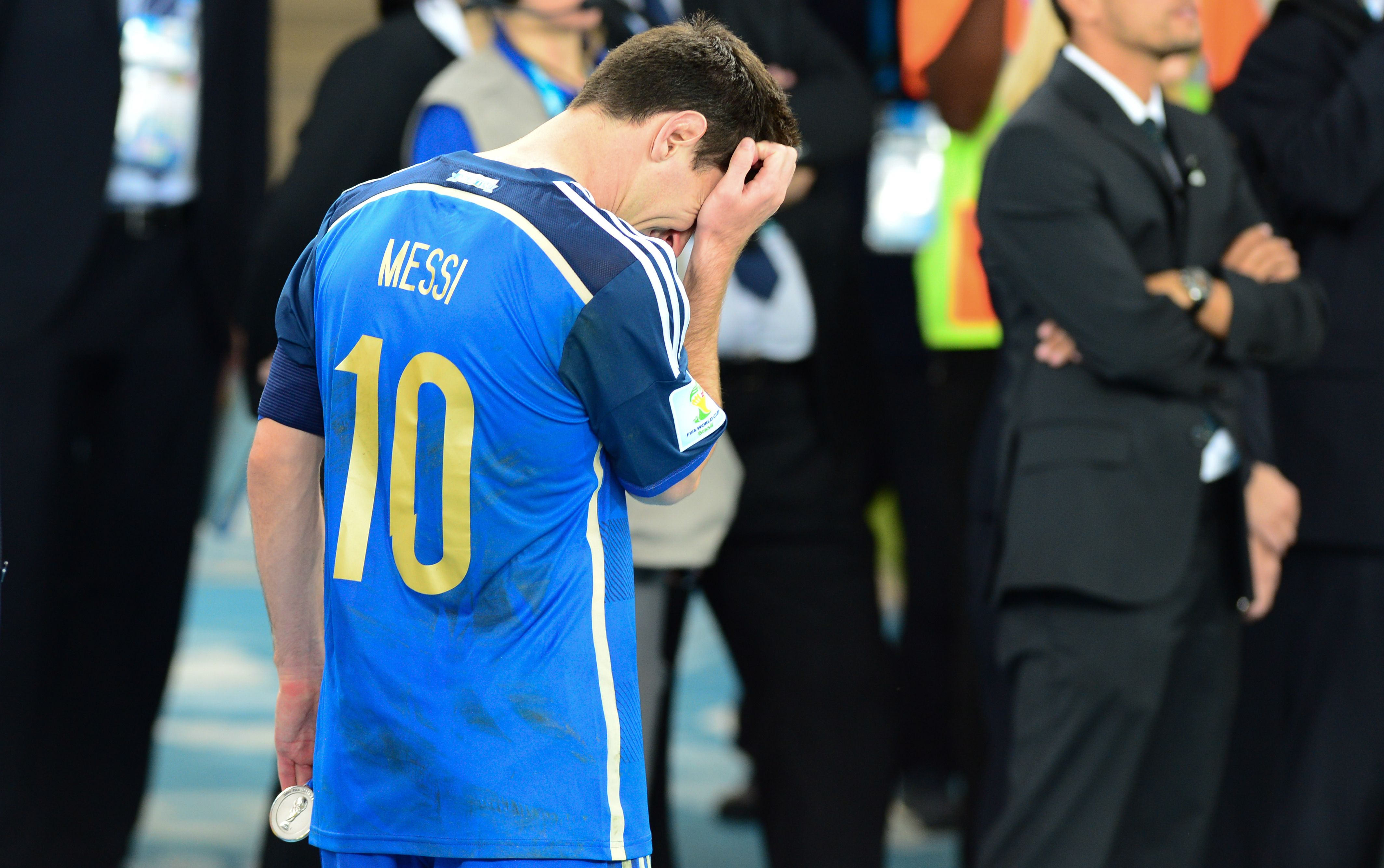 Argentine player, Lionel Messi in tears after the the loss in the final to Germany 2014 FIFA World Cup Final